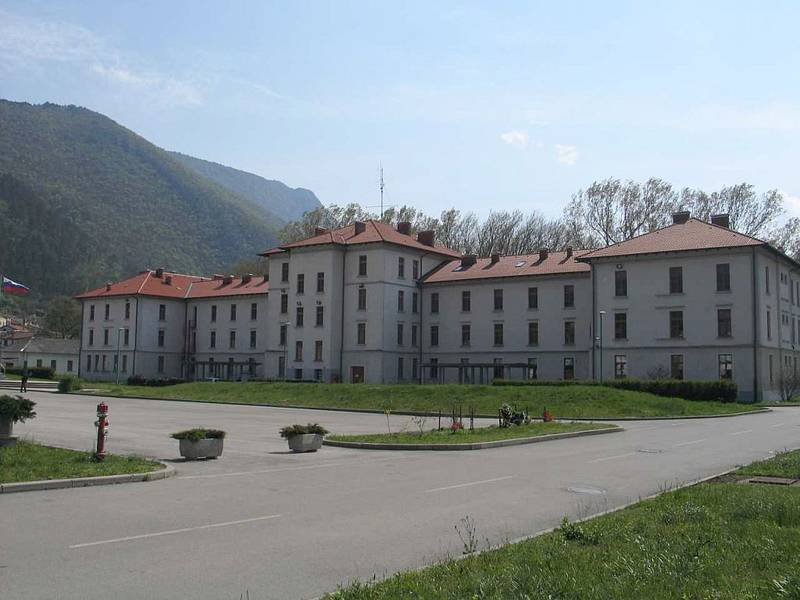 Vojašnica Janka Premrla - Vojka